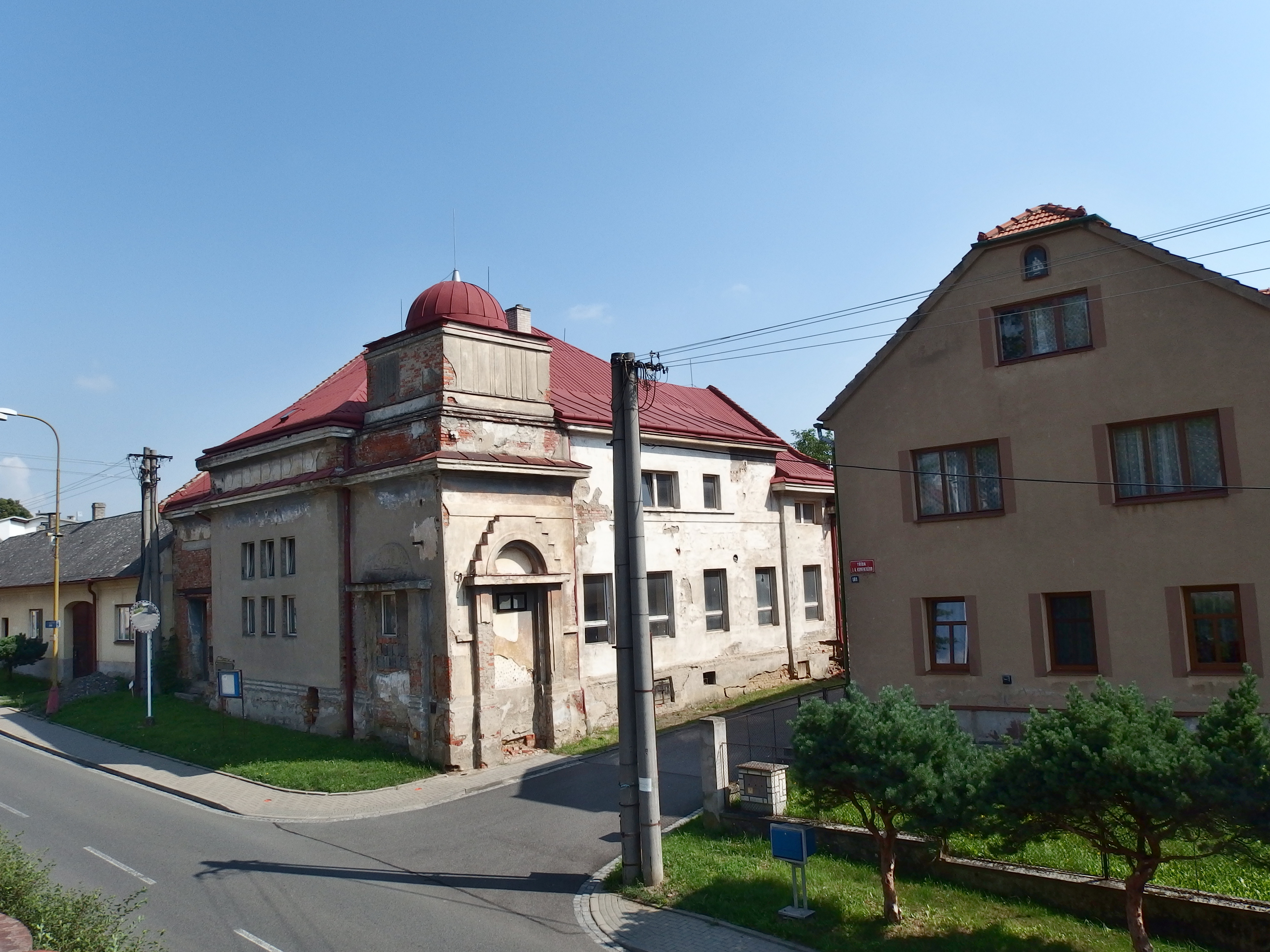 Kelč, Vsetín District, Czech Republic.